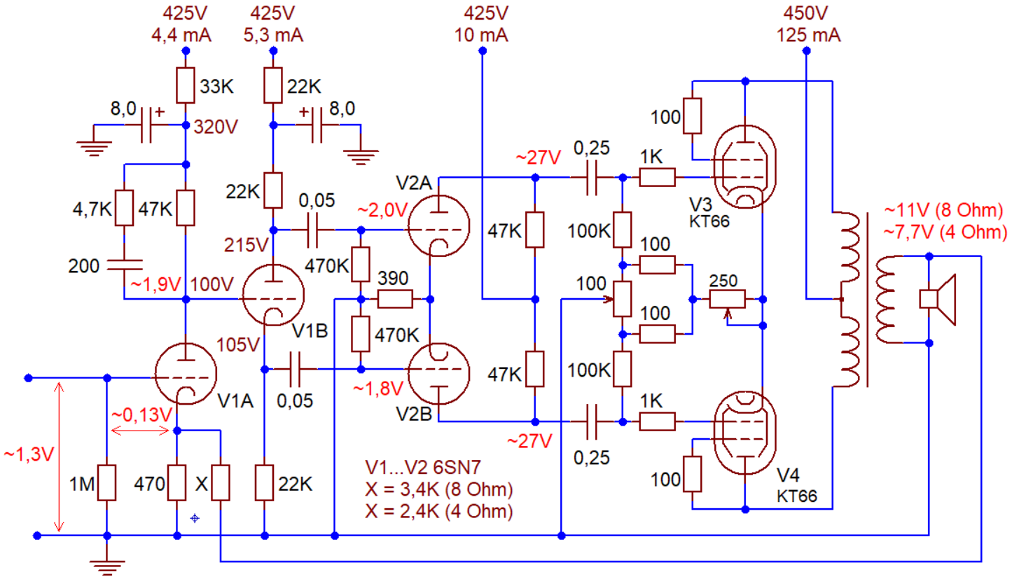 The revised Williamson amplifier, as published in the August 1949 Wireless World article. Power supply components omitted. AC voltages, specified by Williamson in peak volts, shown recalculated to effective sine volts. These correspond to 15W output power (as specified by Williamson). The output stage balancing pot (250 Ohm here) was actually a 150 Ohm fixed + 100 Ohm variable. Otherwise it's all original. The X feedback resistor equals 1200*Sqrt(Zoutput) Ohms.